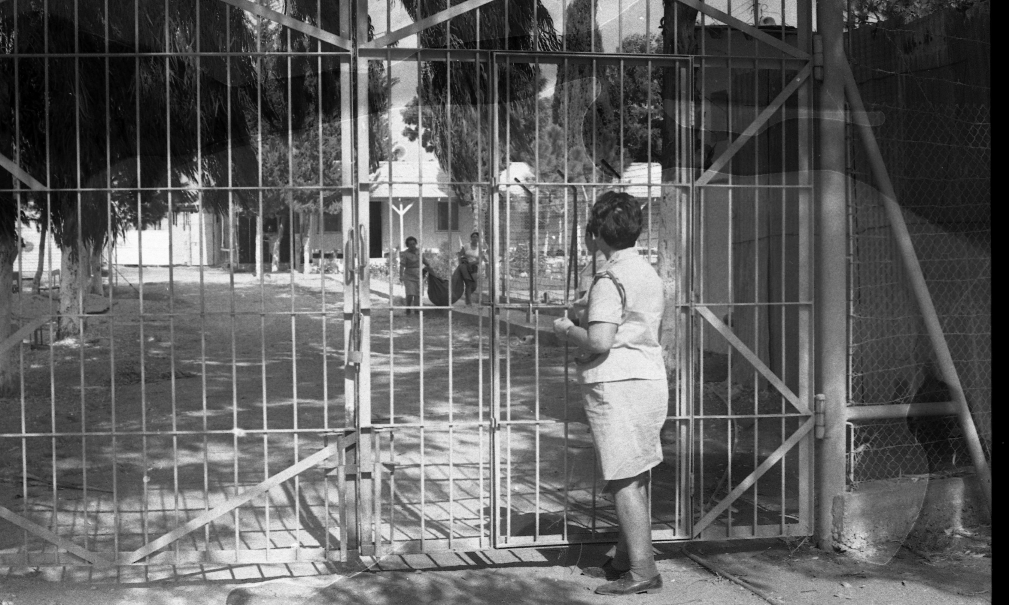 Neve Tirza women's prison.